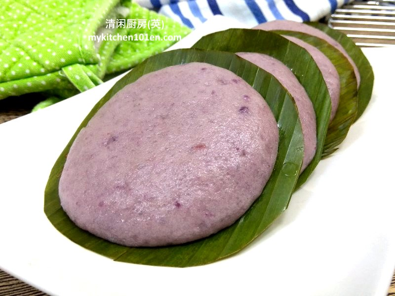 This is a variation from the traditional red hee pan, it is a hee pan made with purple sweet potato.